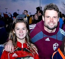 Drew Moor with a fan, after arriving at Dicks Sporting Good Park for a MLS Cup post-game celebration.